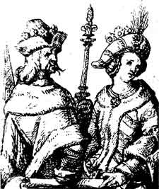 King Jogaila and his wife Zofia Holszańska by A. Leser